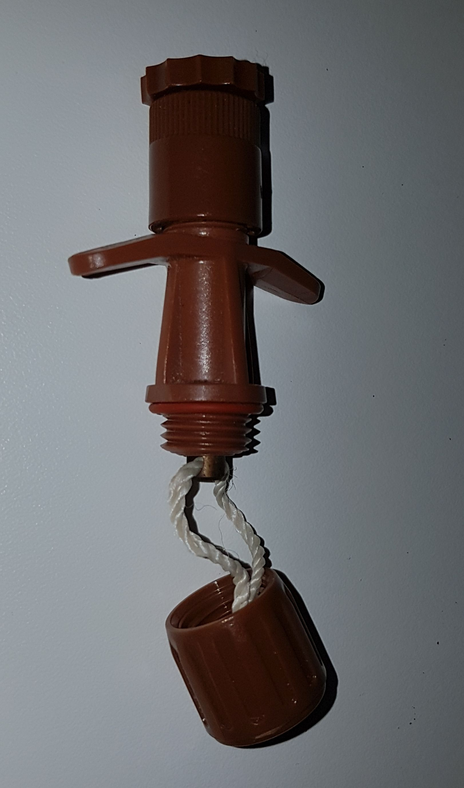 Firing pin igniter (Safety Fuse Igniter) of the Swiss military.